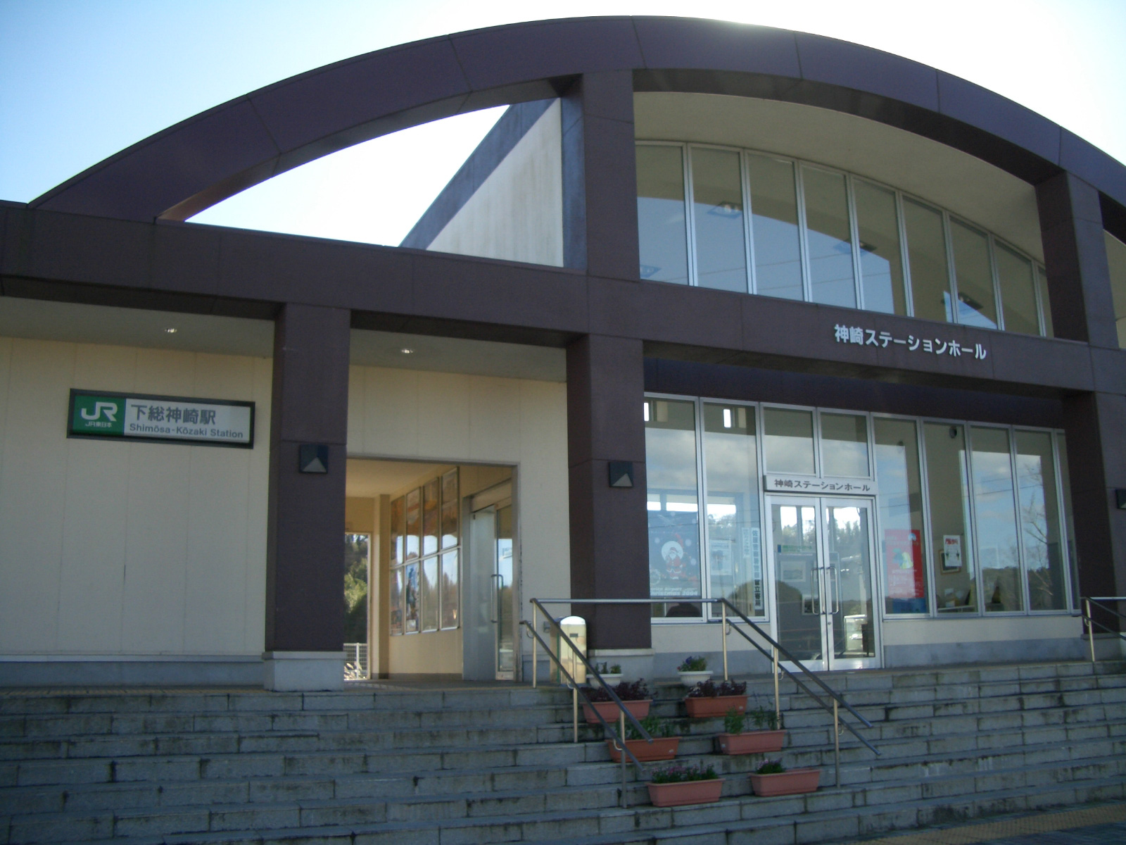 JR East Narita Line Shimōsa-Kōzaki Station